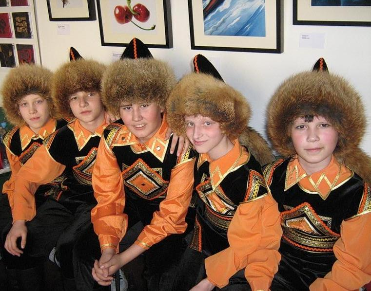 The young_bashkirs